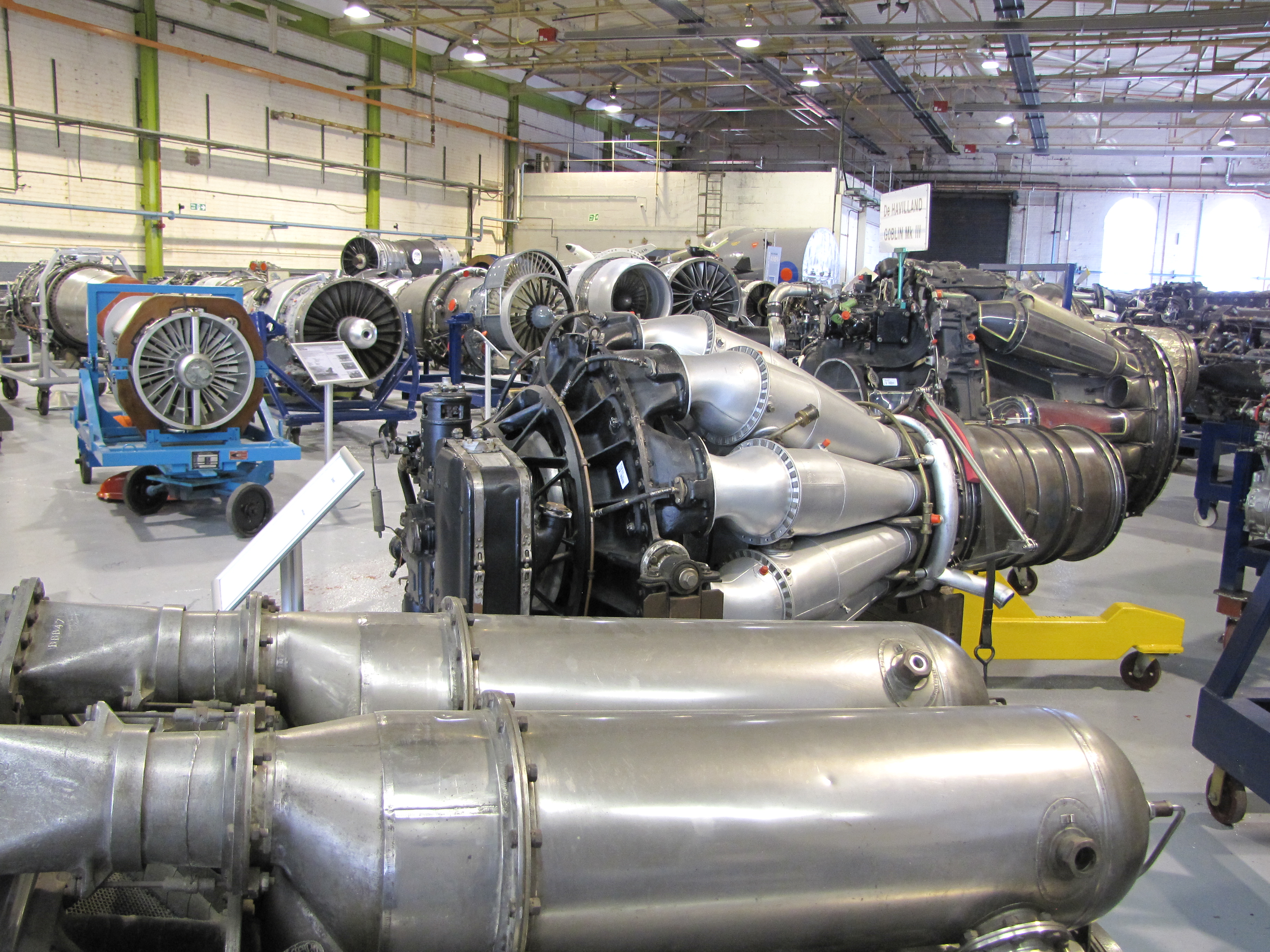 General view in engine display area